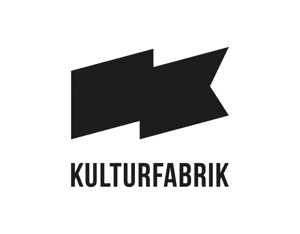 Le logo de la Kulturfabrik